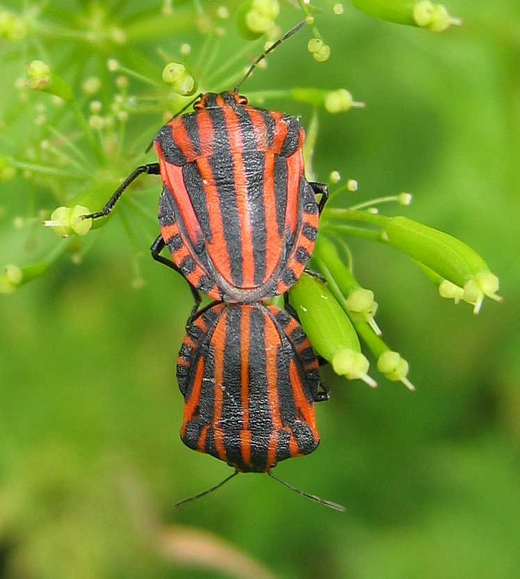 Graphosoma italicum, Welser Heide, Upper Austria, Austria